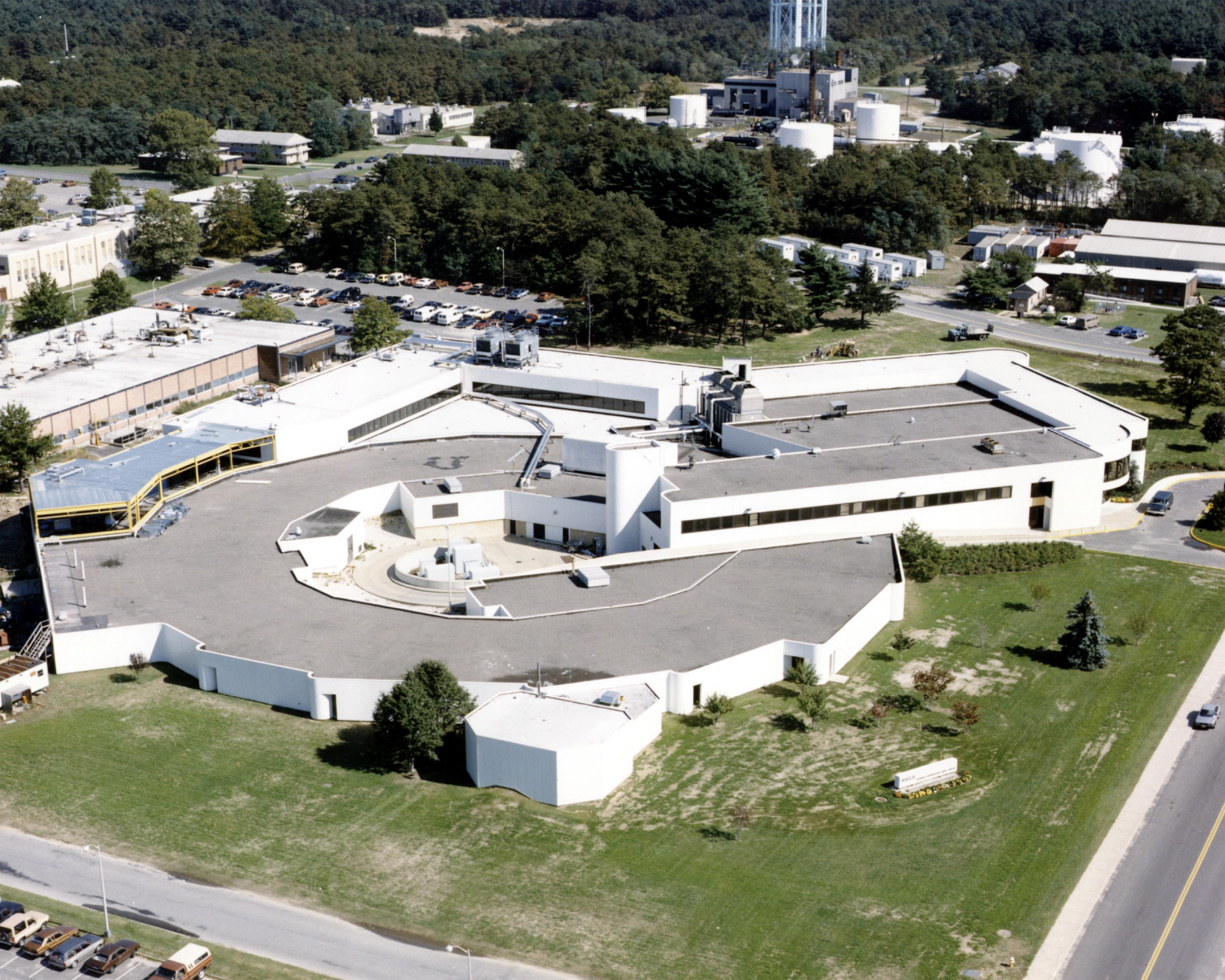 VIEW OF THE NATIONAL SYNCHROTRON LIGHT SOURCE. THE NATIONAL SYNCHROTRON LIGHT SOURCE IS THE NATION'S LARGEST FACILITY DEDICATED SOLELY TO THE PRODUCTION OF SYNCHROTRON RADIATION. IT PROVIDES INTENSE BEAMS OF X-RAYS AND ULTRAVIOLET LIGHT FOR USE BY SCIENTISTS FROM ALL OVER THE COUNTRY, FOR RESEARCH IN PHYSICS, CHEMISTRY, BIOLOGY AND VARIOUS TECHNOLOGIES. WORK AT THE NSLS INCLUDES BOTH BASIC RESEARCH AND PRACTICAL APPLICATIONS OF USE TO INDUSTRY, USERS OF THE NEW FACILITY INCLUDE VISITING SCIENTISTS FROM UNIVERSITIES, OTHER NATIONAL LABORATORIES, AND CORPORATIONS. For more information or additional images, please contact 202-586-5251.